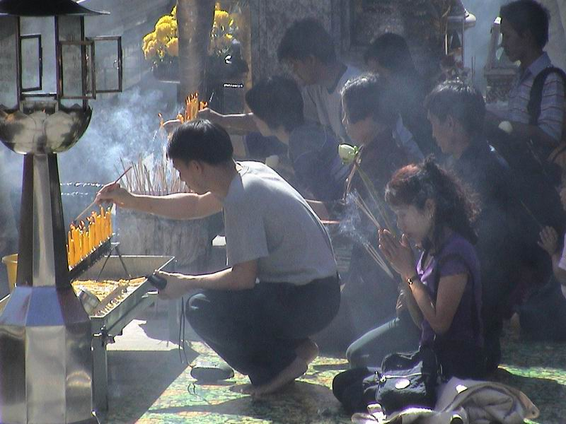 Incense: At Wat Phra Kaeo